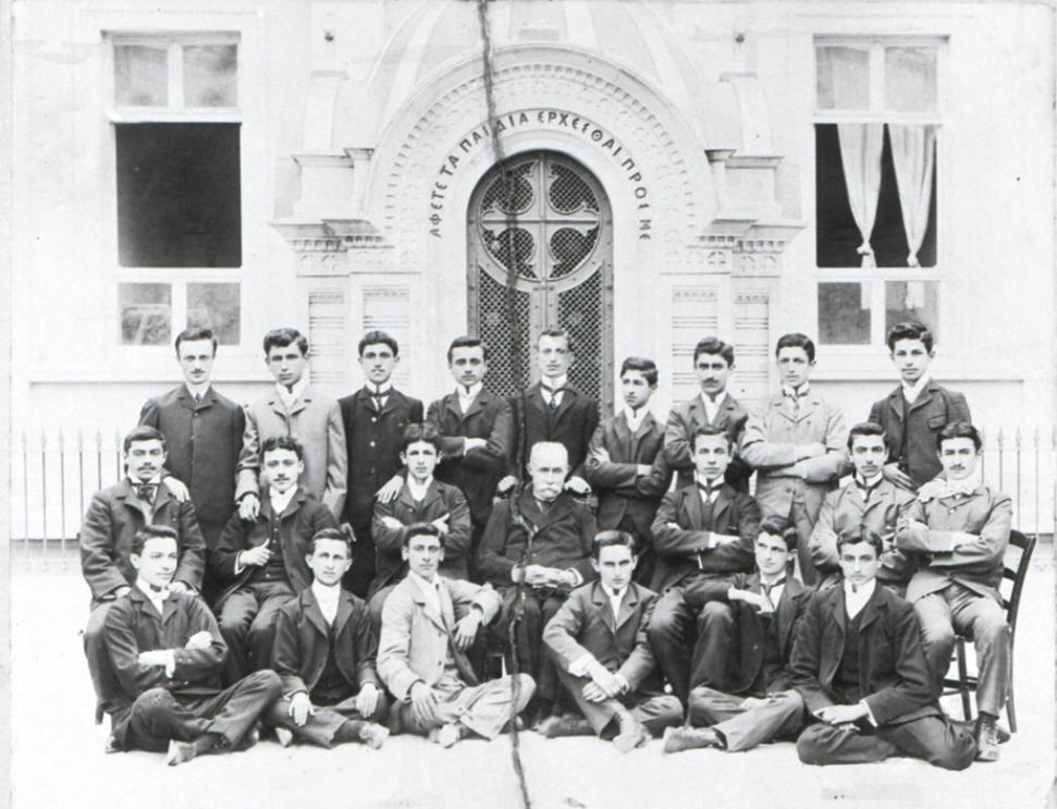 Pontian Greek students and teachers of the Alumni Tuition 1902-3 Trebizond (modern Trabzon, Turkey).